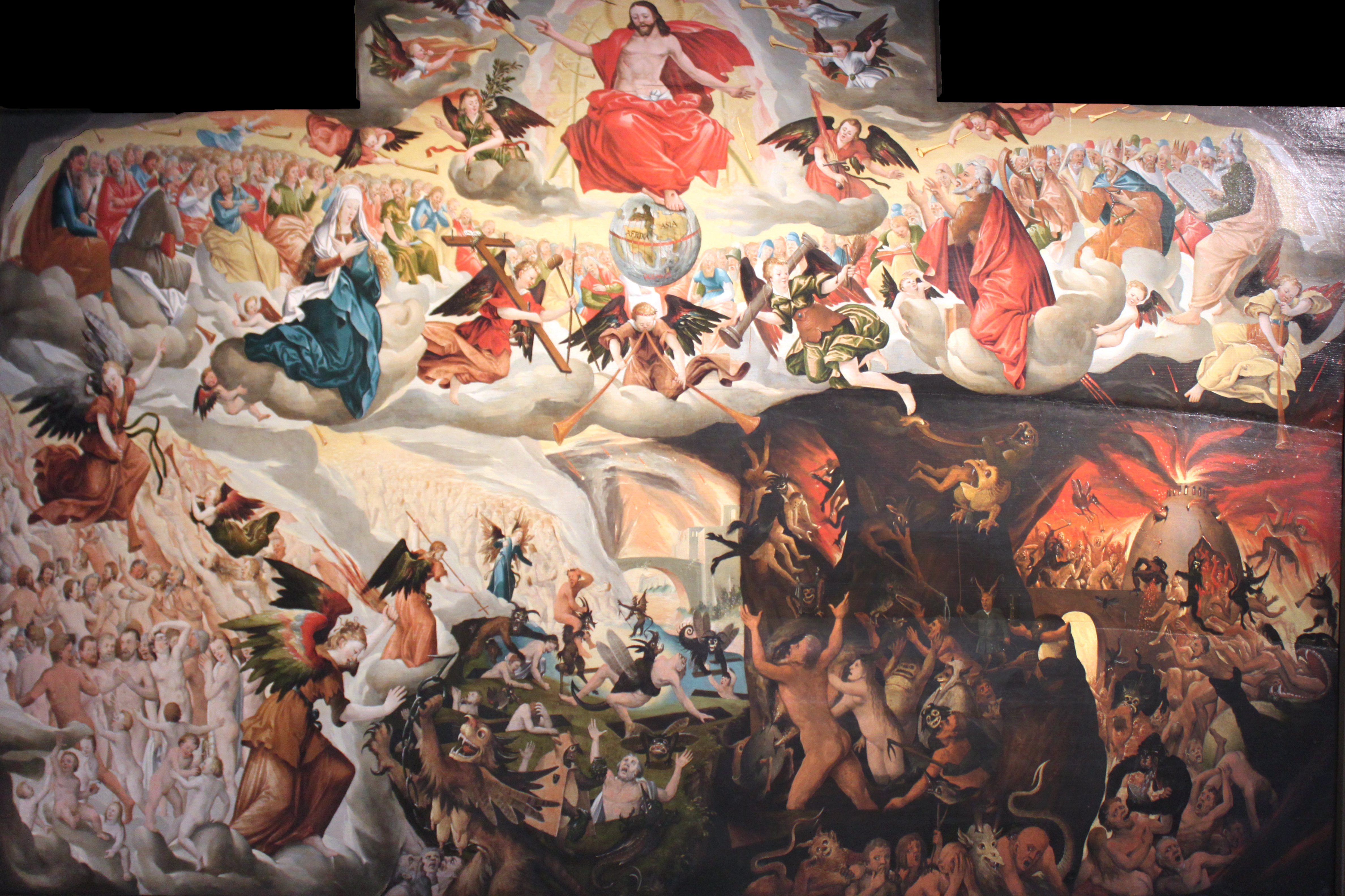 Last Judgement, from the courtroom in the Ulm Town Hall